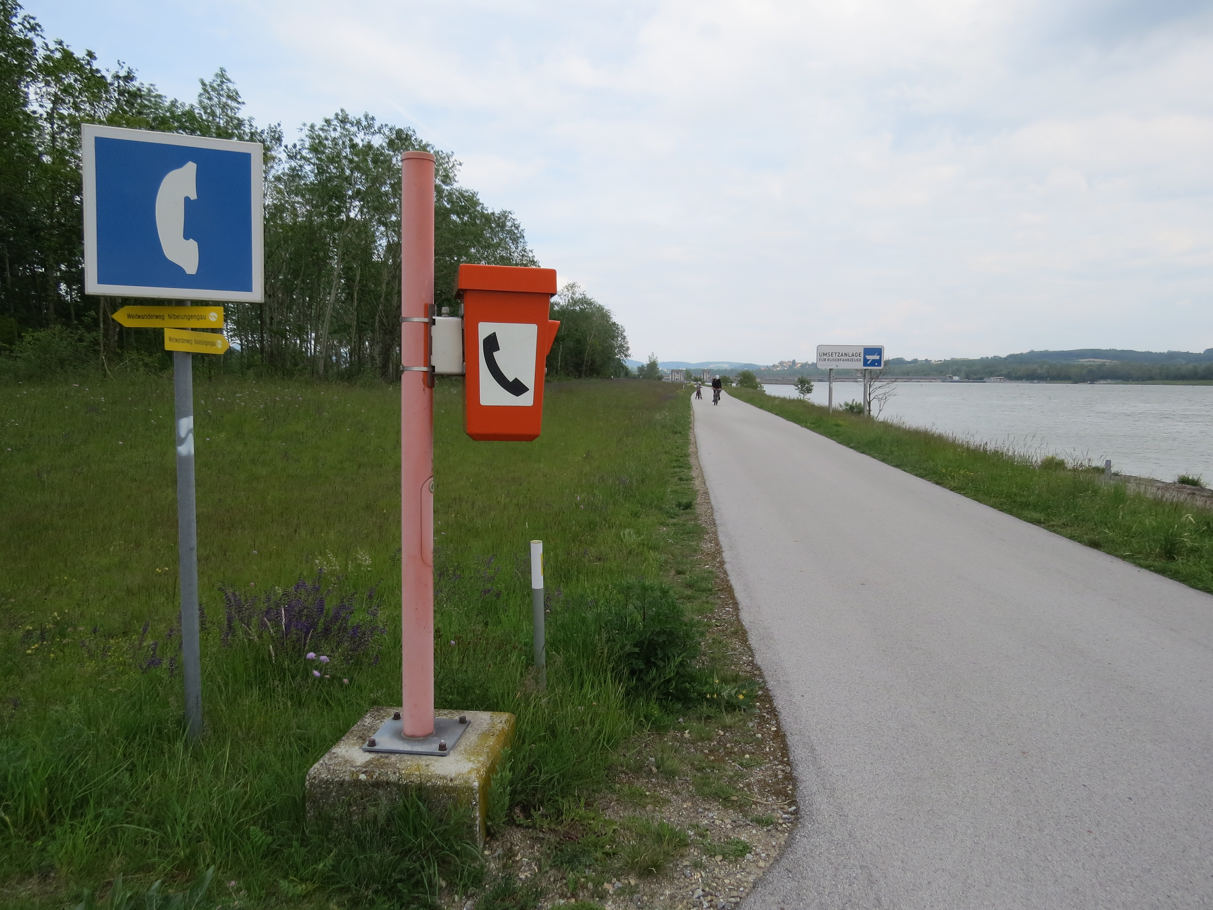 Emergency telephone at EuroVelo 6 in Emmersdorf an der Donau, Austria